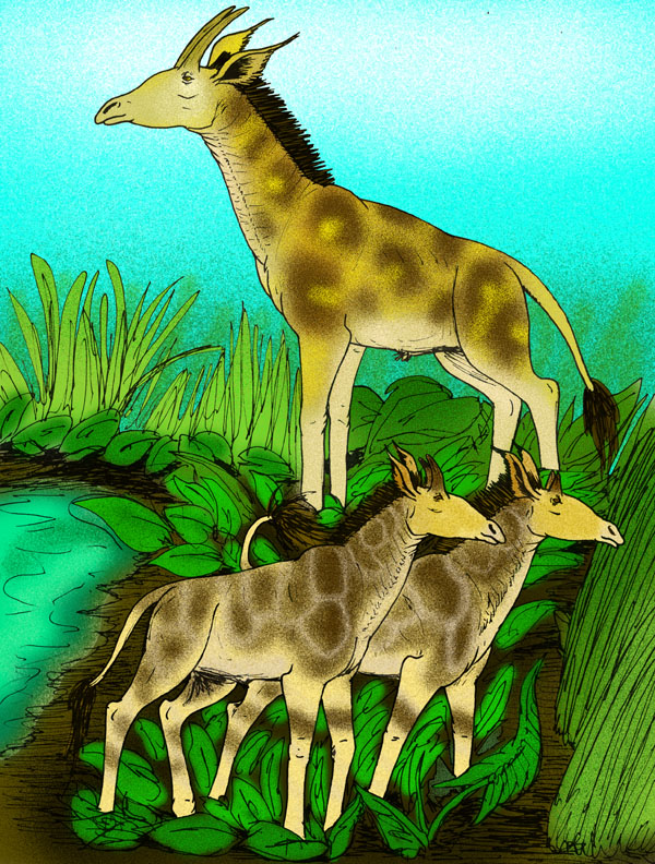 Reconstructions of the Late Miocene giraffids Samotherium major, and a bull and cow of S. boissieri, from Late Miocene Greece